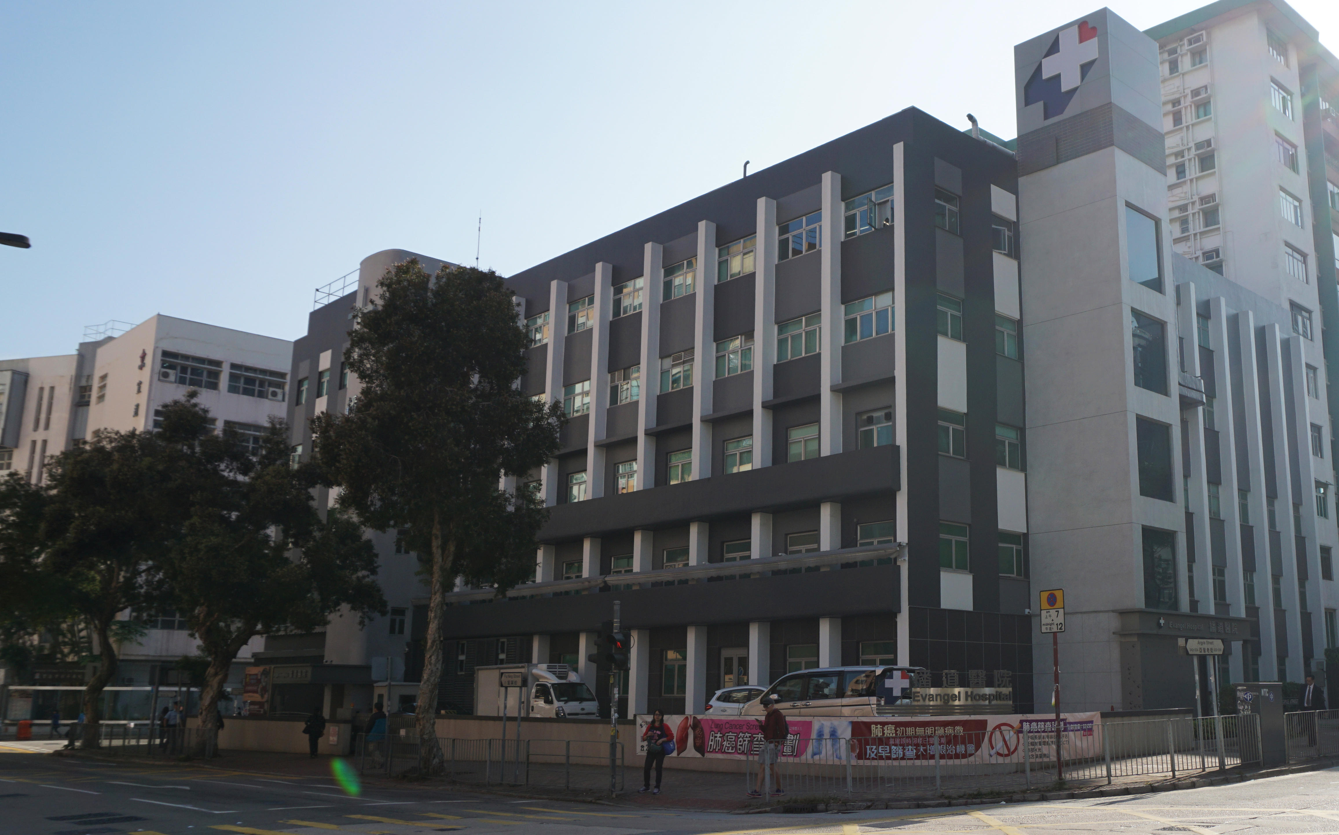 Evangel Hospital in Ma Tau Wai, Hong Kong.